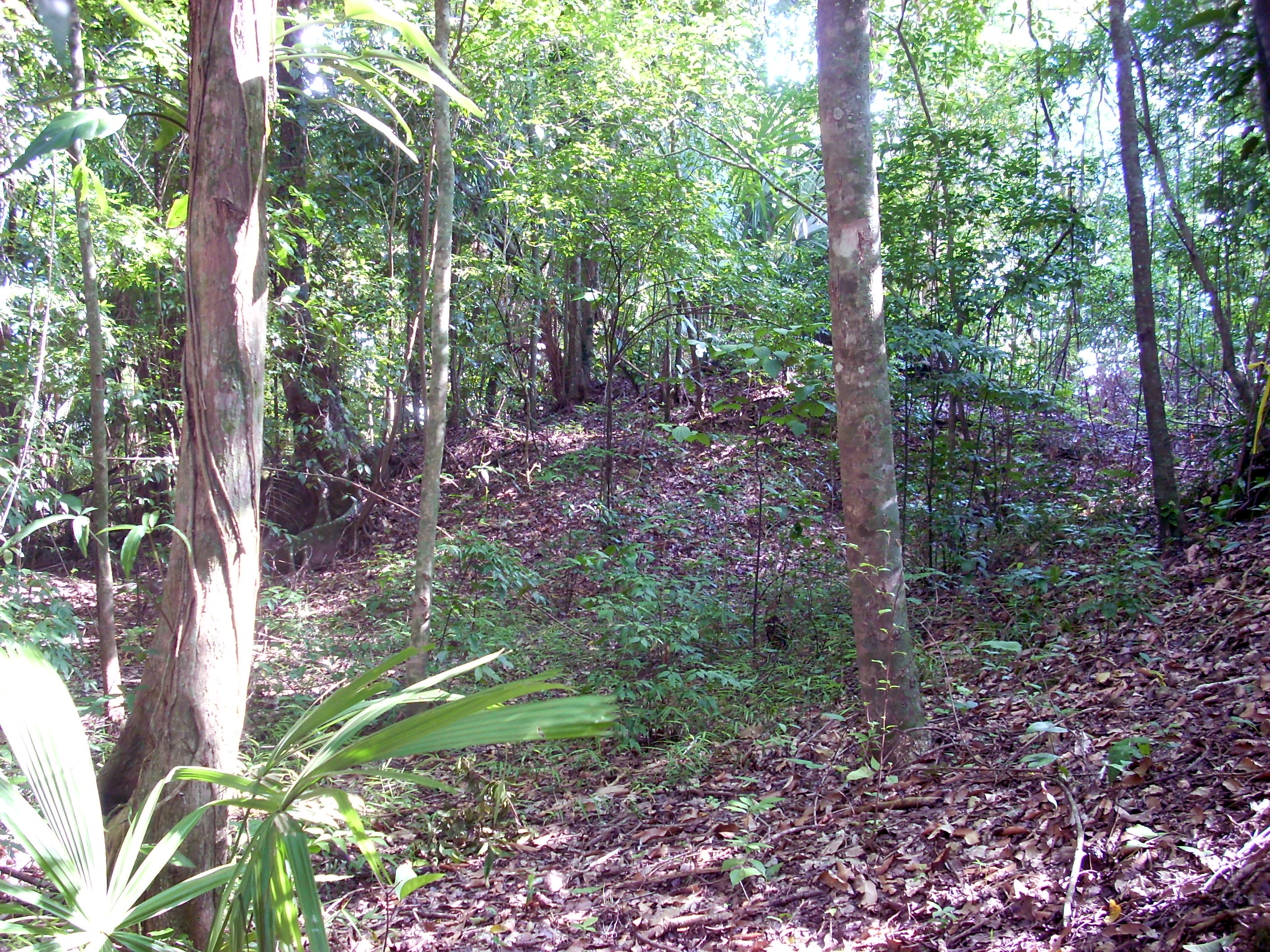 Structures on top of Terrace 1 of the acropolis at the Maya ruins of El Chal, Dolores, Peten, Guatemala.